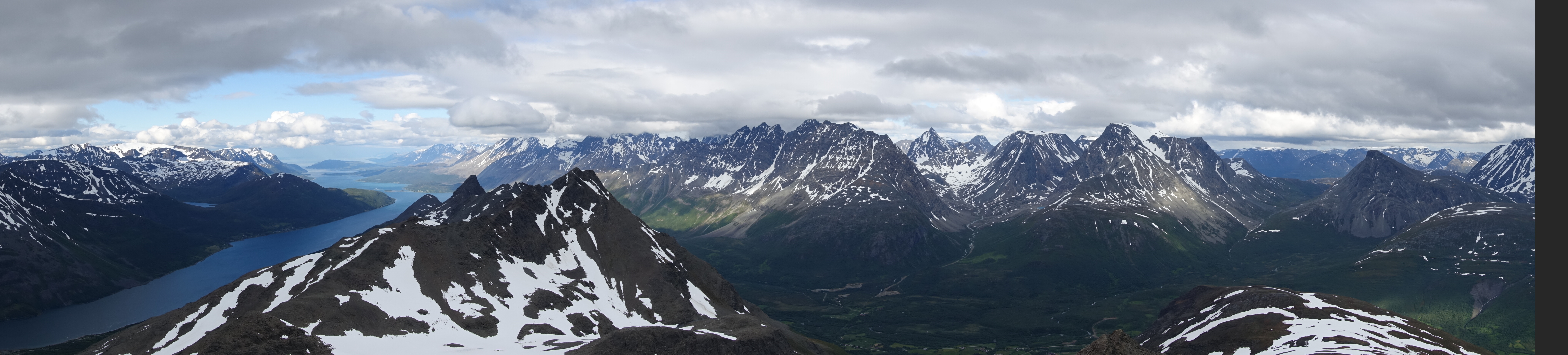 Scenic view from Rasmustinden